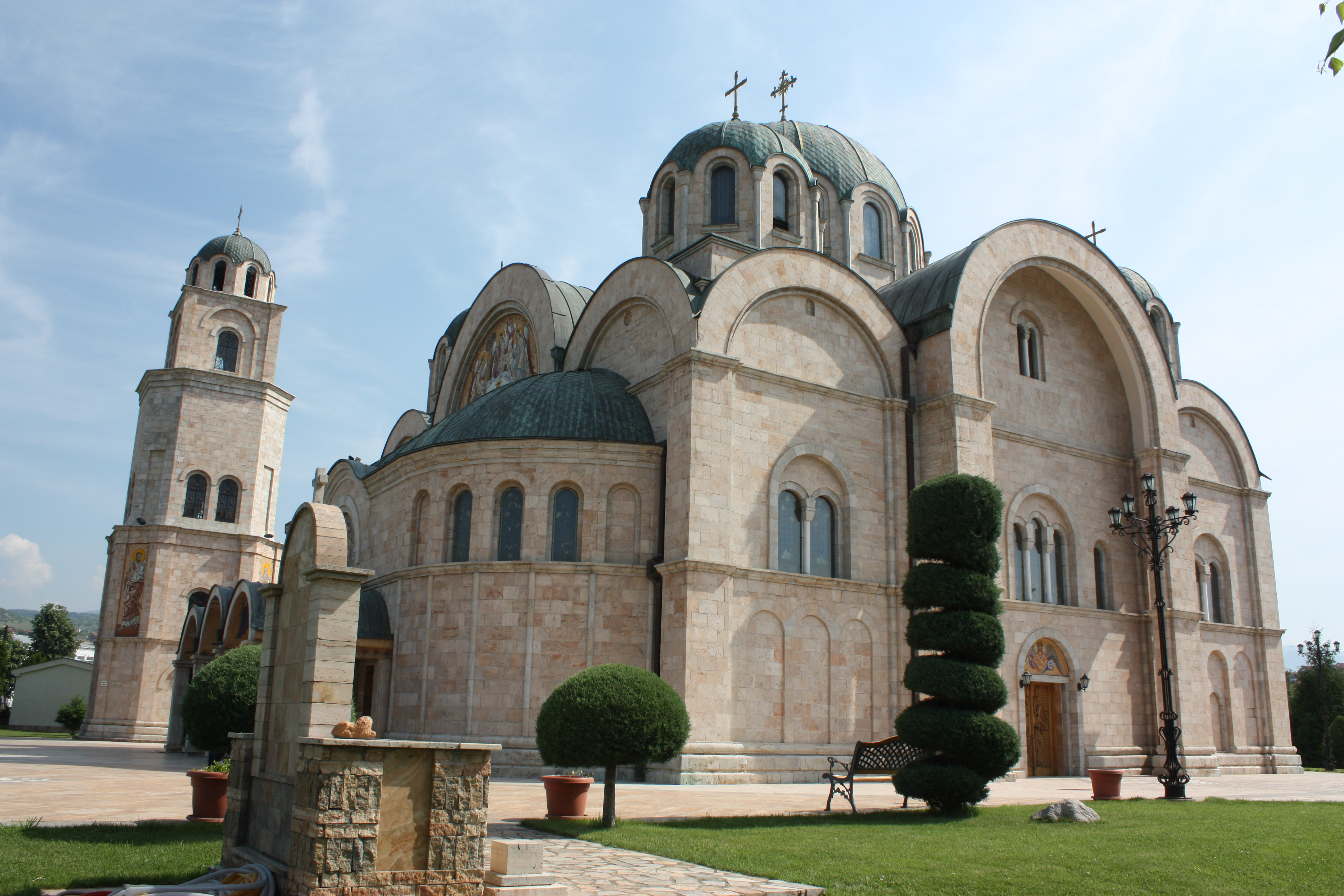 Holy Trinity Church in Radoviš, Macedonia